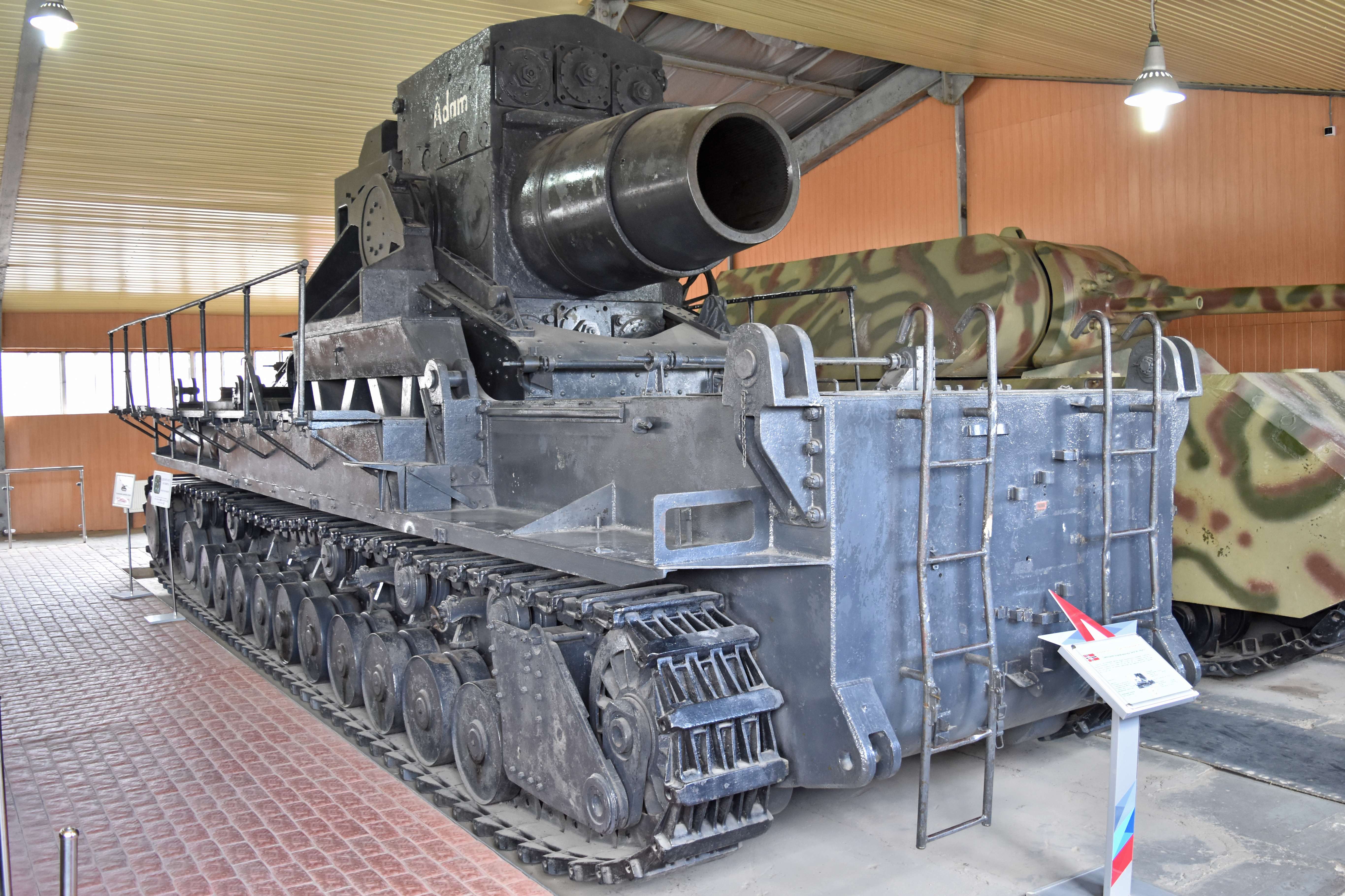 German WW2 Self-propelled Siege Mortar Designer and Manufacturer:- Rheinmetall Produced:- 1940 to 1942 Total production:- 7 Main Armament:- 600mm Gerät 040 Howitzer German Siege Mortar originally designed to attack the Maginot Line. Originally built with the 600mm Gerät 040, three were later converted to the 540mm Gerät 041 which had a longer range. This is the sole survivor of the seven built and is painted to represent “Adam” although it is believed to actually be “Ziu”. It still has the original Gerät 040 Howitzer and is on display in what is best known as Hall 5 of the Kubinka Tank Museum, although its official title is now Pavilion 5 in Area 2 of the Park Patriot museum. Kubinka, Moscow Oblast, Russia.